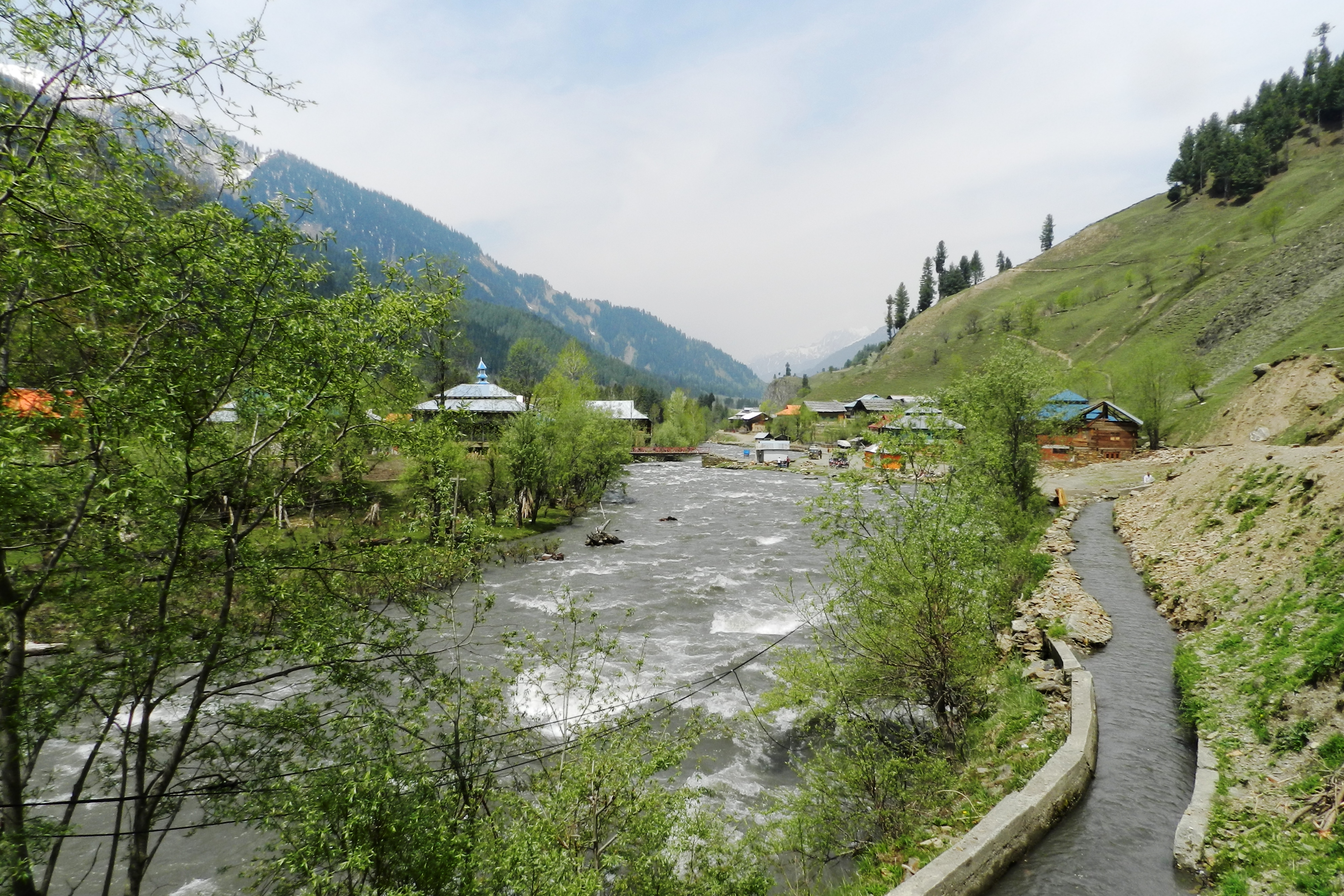 Gagai Nala (river) in Tao Butt (Taobat) - last pakistani village of Neelum Valley, Azad Kashmir, Pakistan